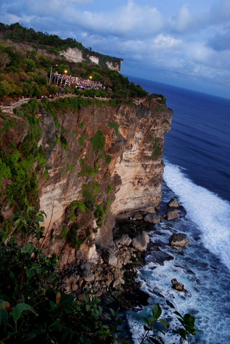 A view from the other end. The Uluwatu Sunset temple persches on the edge of a cliff on the south coast of Bali with drop of 250 ft to the Indian Ocean. You enjoy amazing sunset with dinner & performaces daily. You have to be careful as there are lots of monkeys harassing tourist along the steps to the top.